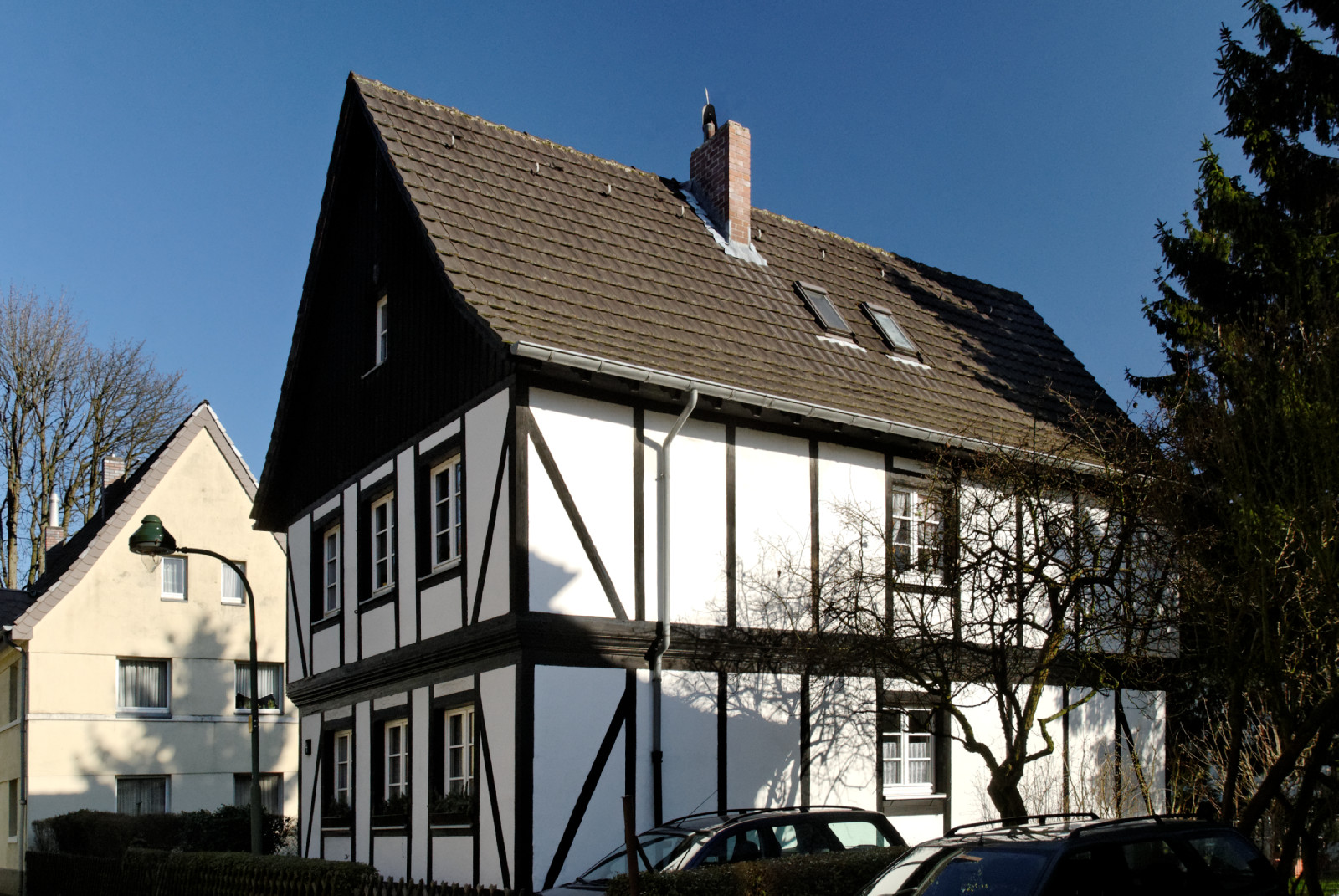 House Am Tannenwäldchen 4 in Düsseldorf-Derendorf, Germany